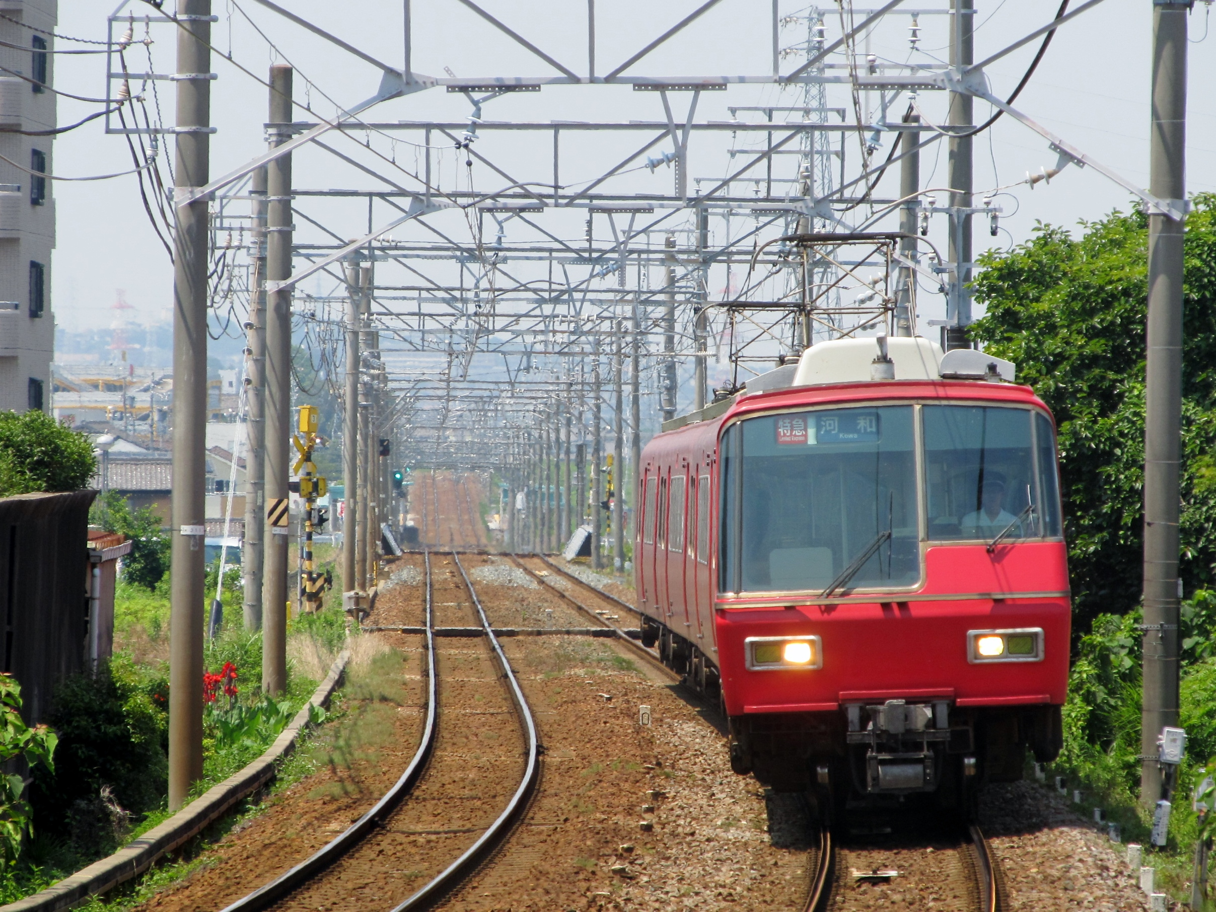 Meitetsu 5300 series. Limited Express bound for Kōwa.